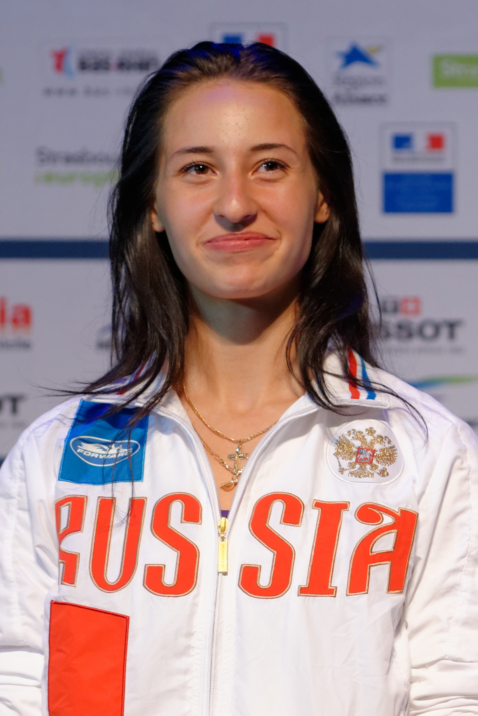 Russia's Yana Egorian at the award ceremony of the women's sabre team event at the European Fencing Championships at Rhénus Sport in Strasbourg on 13 June 2014.